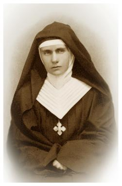 Blessed Alicja Jadwiga Kotowska